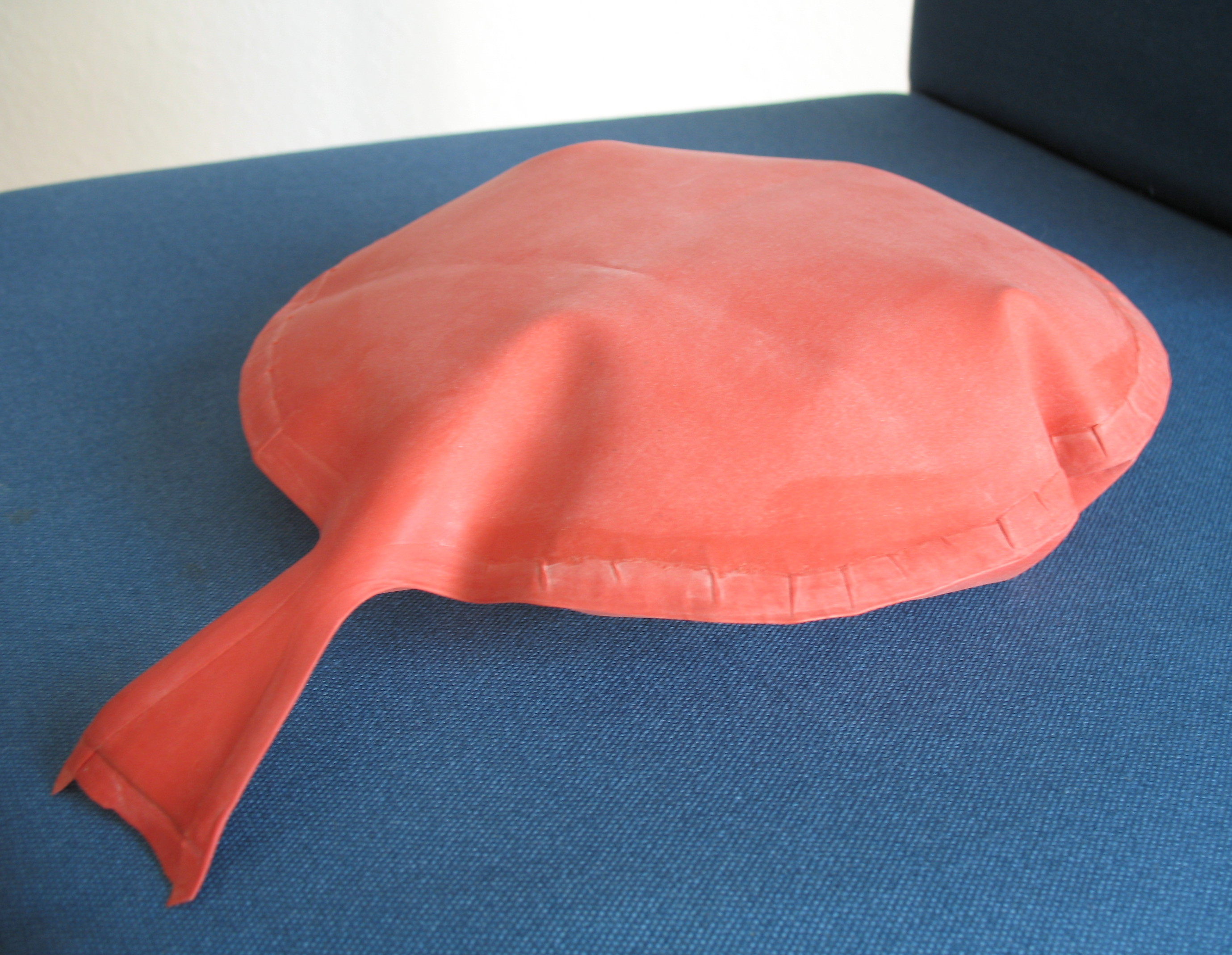 Rubber whoopee cushion on a chair